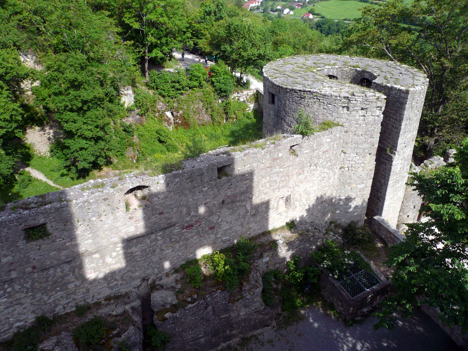 Trimburg, Germany - Tower and Well